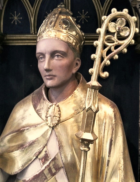 St. Felix. from the reredos of the church of St. Peter Mancroft, Norwich, UK